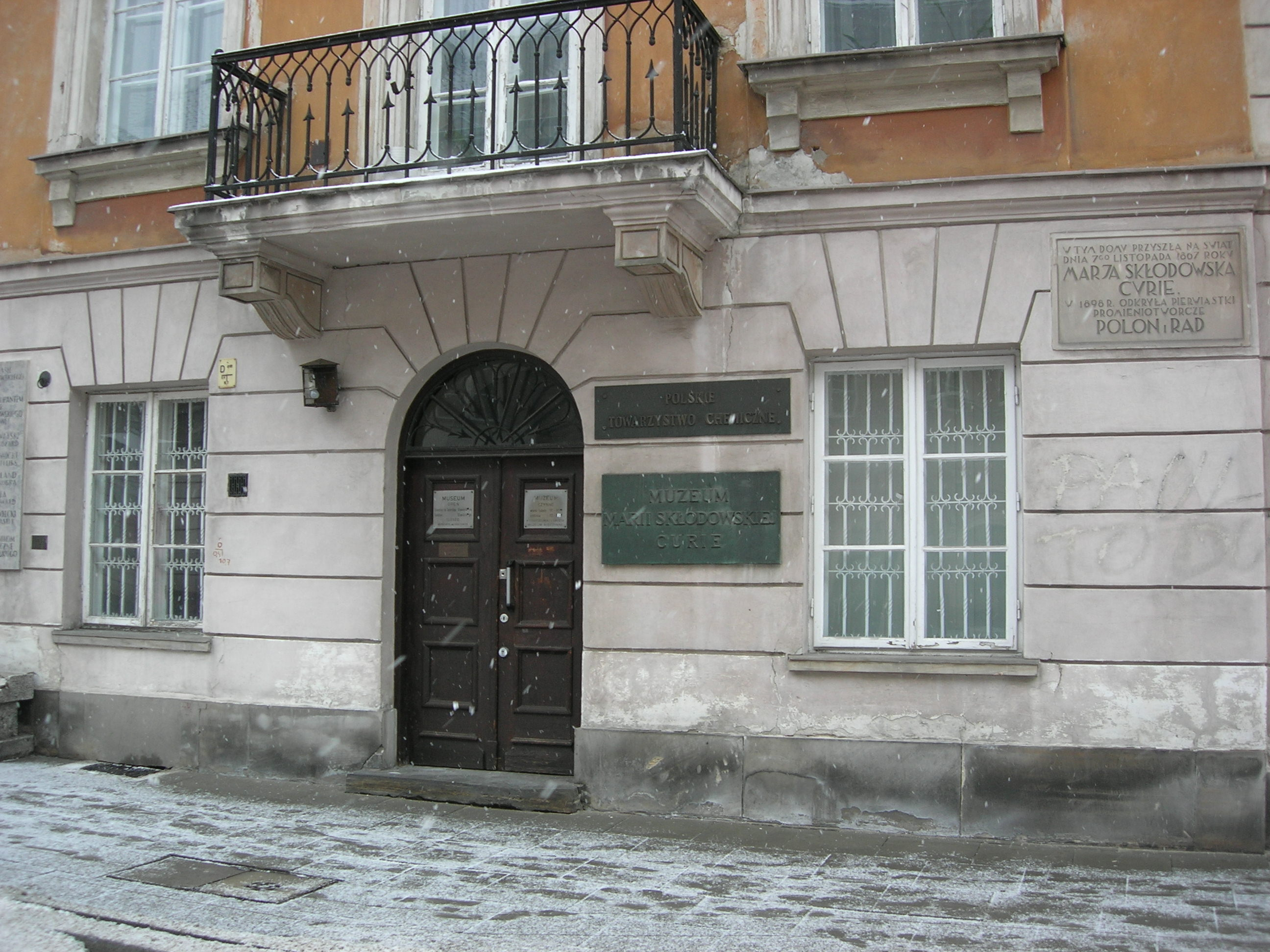 Description = Maison natale de Marie Skłodowska - Curie à Varsovie (Pologne) Source = Photo taken by Remi Jouan Date = Mars 2006 Author = Remi Jouan